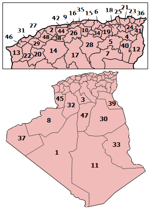 Map of the provinces of Algeria, numbered in Arabic alphabetical order.